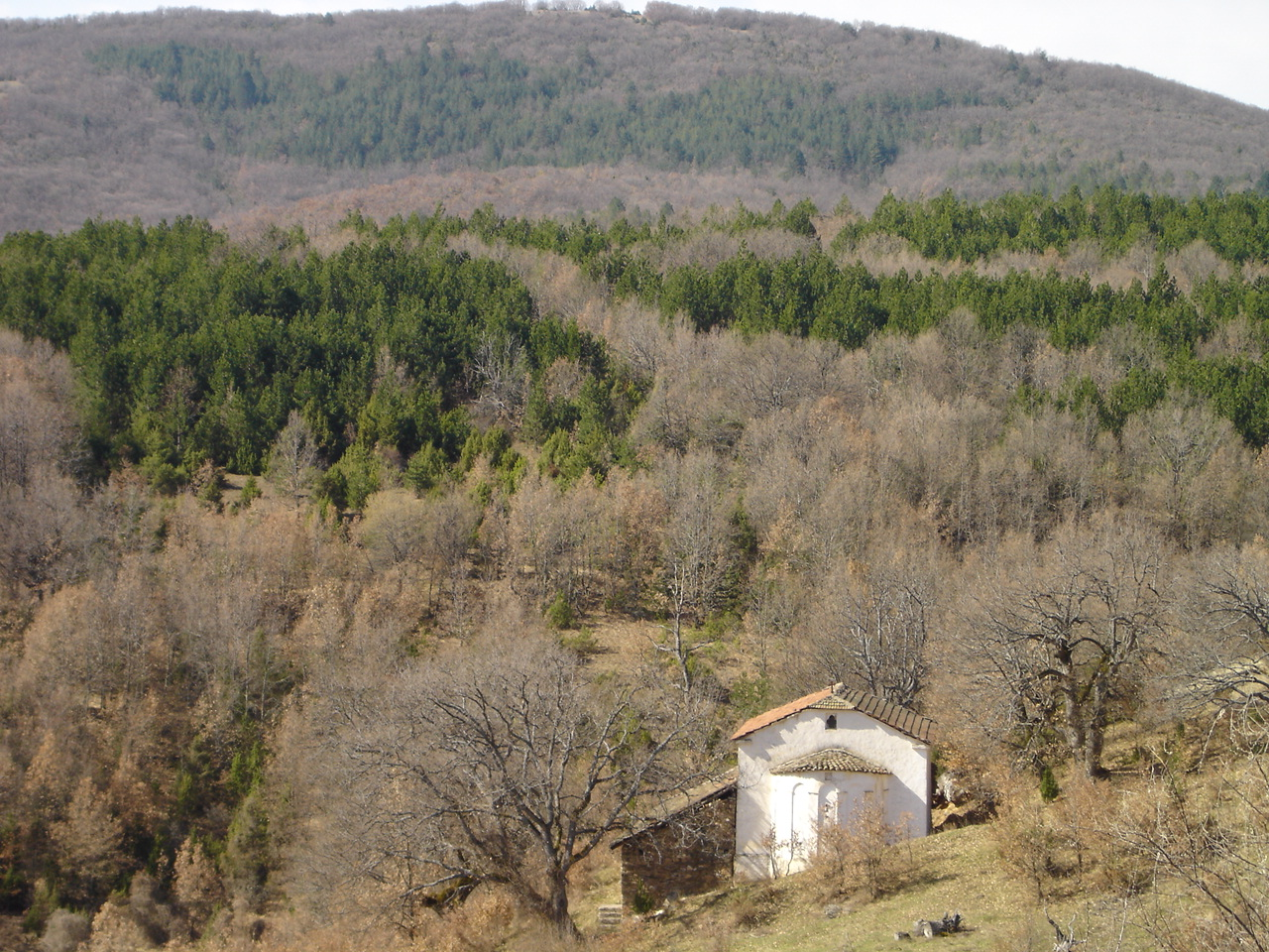 The church in the village of Živovo in Mariovo, Macedonia